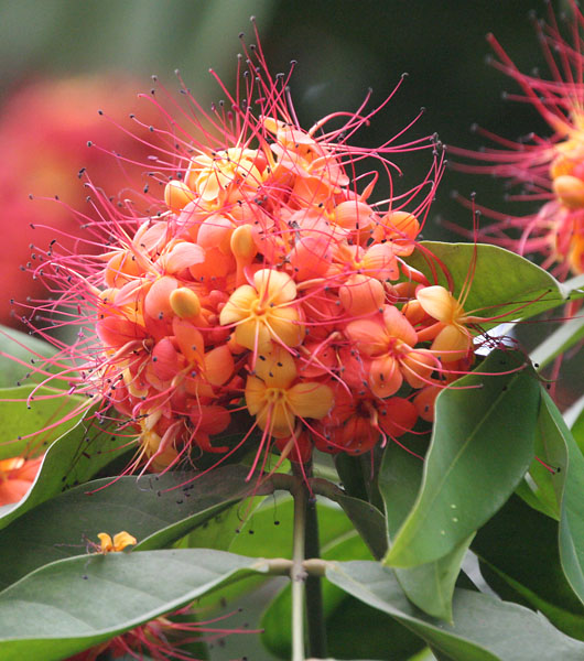 Sita Ashok Saraca asoca in Kolkata, West Bengal, India.